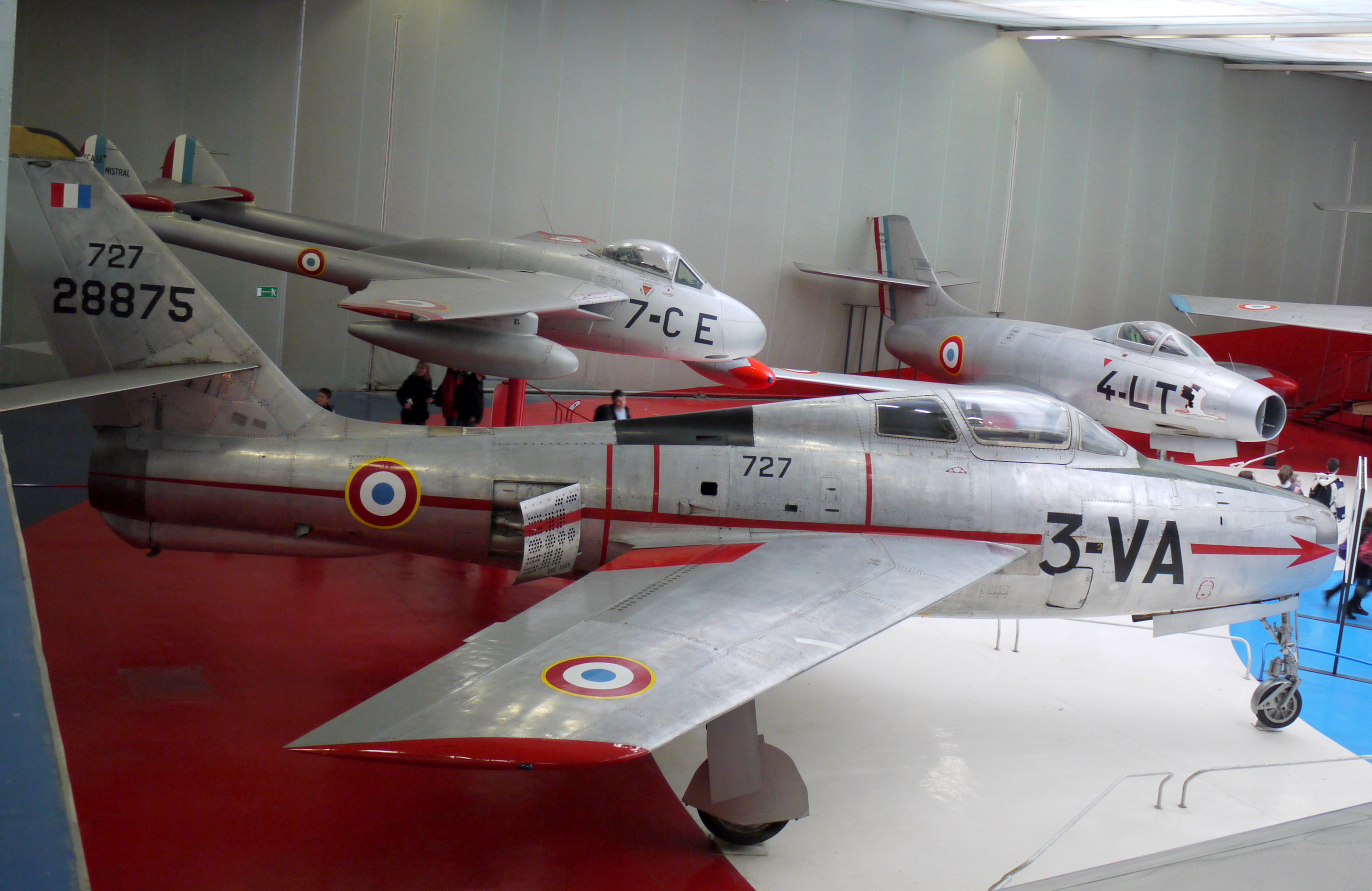 Turbojet fighter-bomber aircraft F-84F Thunderstreak (1946), Museum of Air and Space Paris, Le Bourget (France)